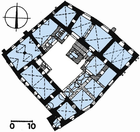 Hrádek, Barborská 28/9, Vnitřní Město, Kutná Hora